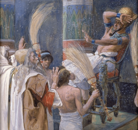 The Plague of Flies, c. 1896-1902, by James Jacques Joseph Tissot (French, 1836-1902), gouache on board, 6 15/16 x 7 3/8 in. (17.6 x 18.7 cm), at the Jewish Museum, New York